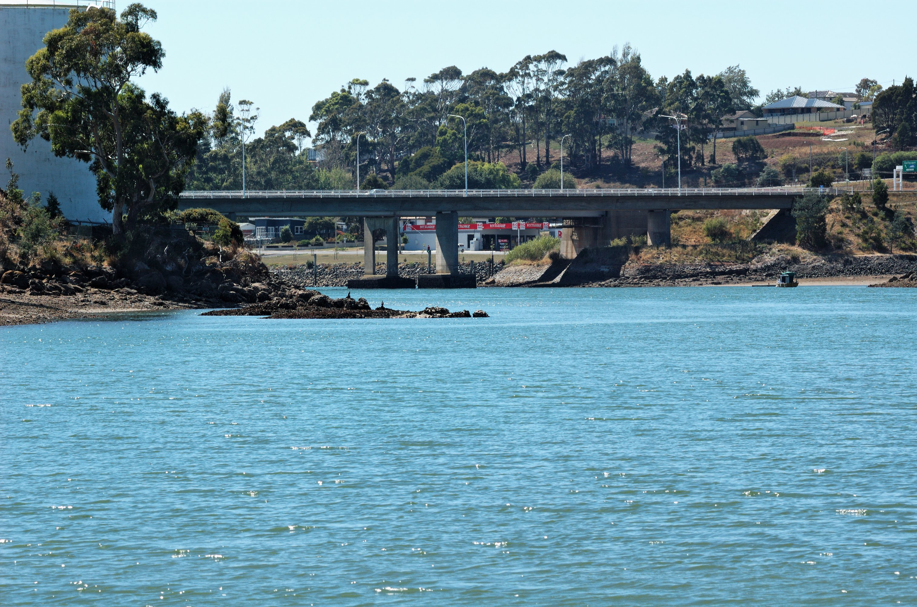 Bass Highway bridge over the Mersey River, Devonport.